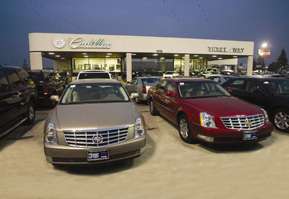 Photograph from front showroom of 3Way Cadillac / SAAB in Bakersfield, California.